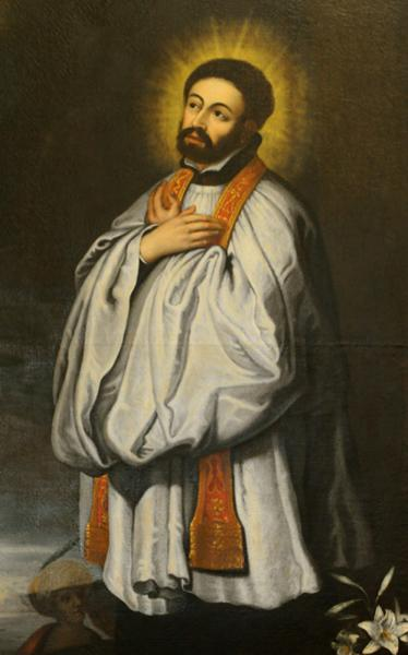 Burchard Wulff (1620–1701): Saint Francis Xavier, Propsteikirche Herz Jesu, Lübeck, after restoration in 2013